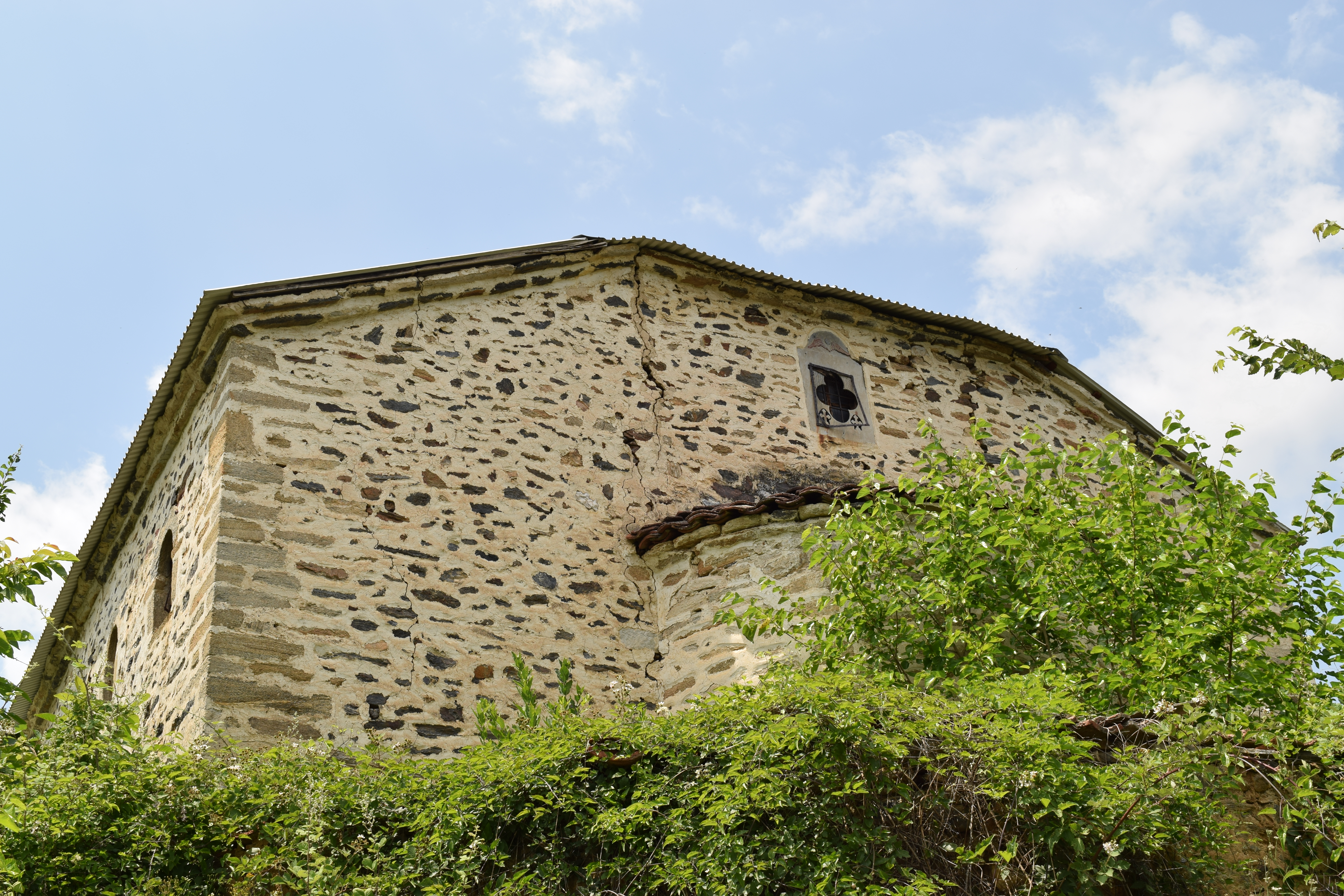 View of the St. Nicholas Church in the village Mokreni